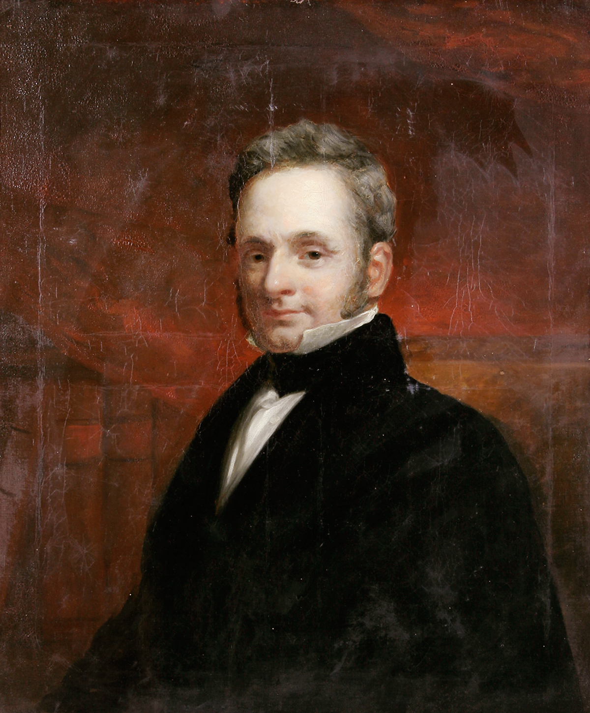 Portrait of John Green Crosse (1790–1850), English surgeon.